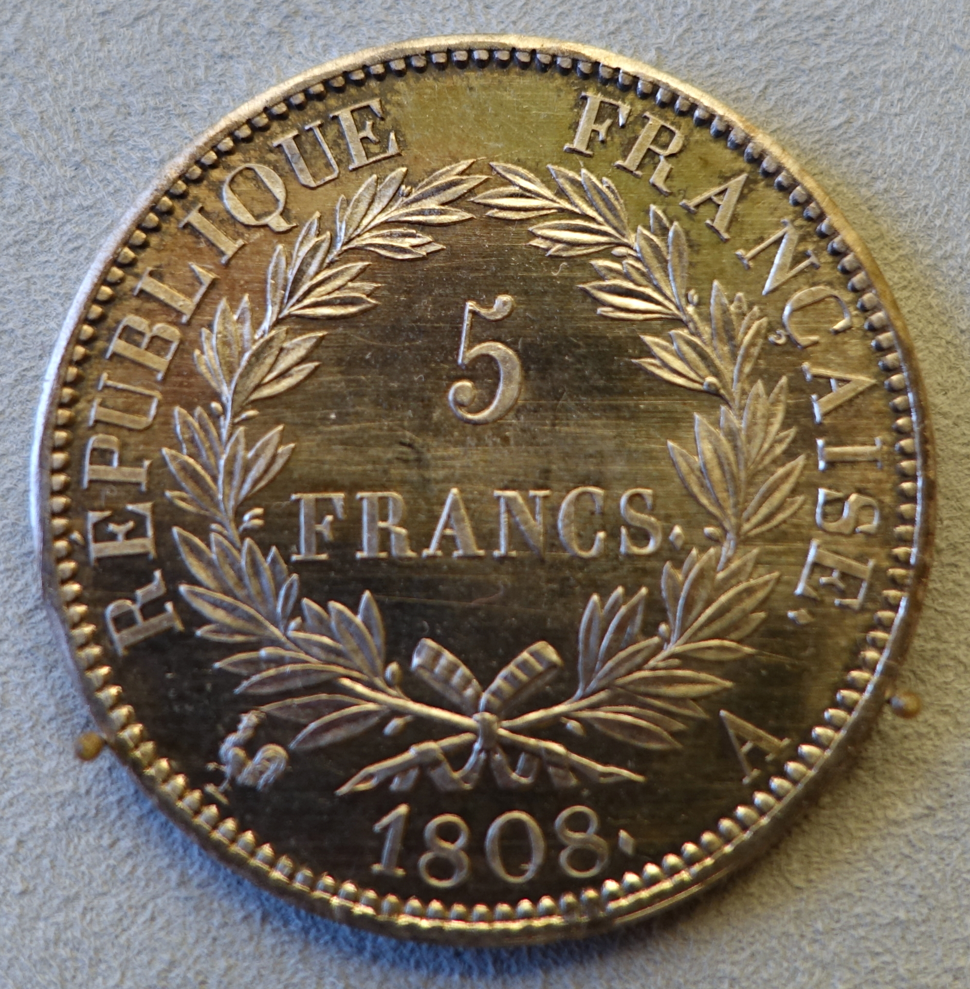 Exhibit in the Bode-Museum, Berlin, Germany. This work is in the public domain because the artist died more than 100 years ago.